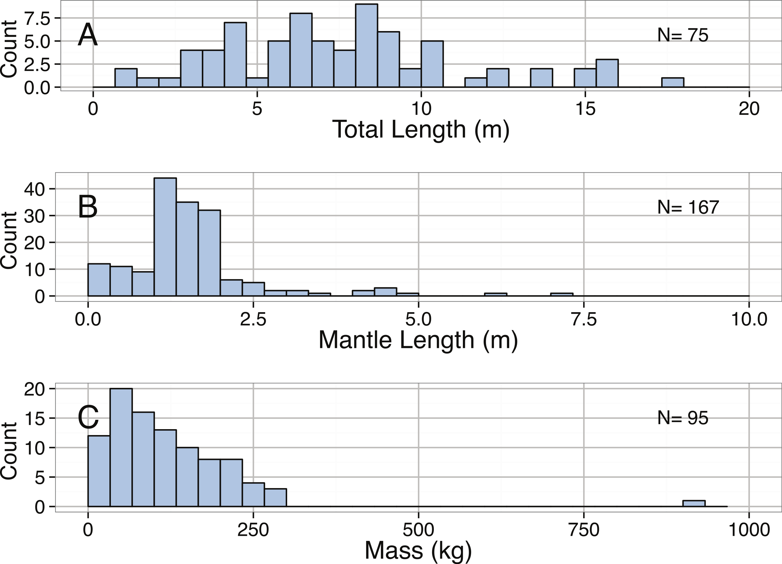 Figure 12: Distribution of (A) Total Length (m), (B) Mantle Length (m), and (A) Mass (kg) for Architeuthis dux.